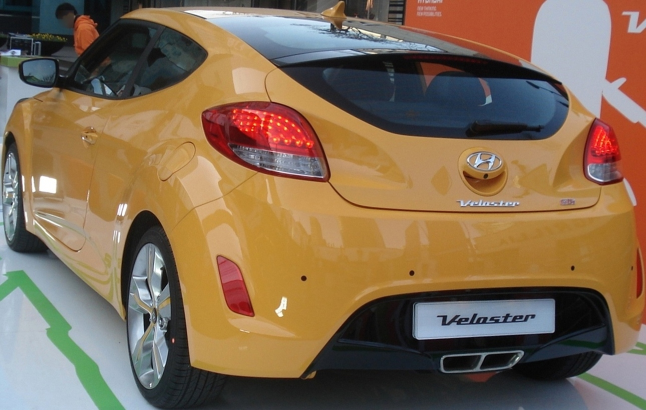 Hyundai Veloster